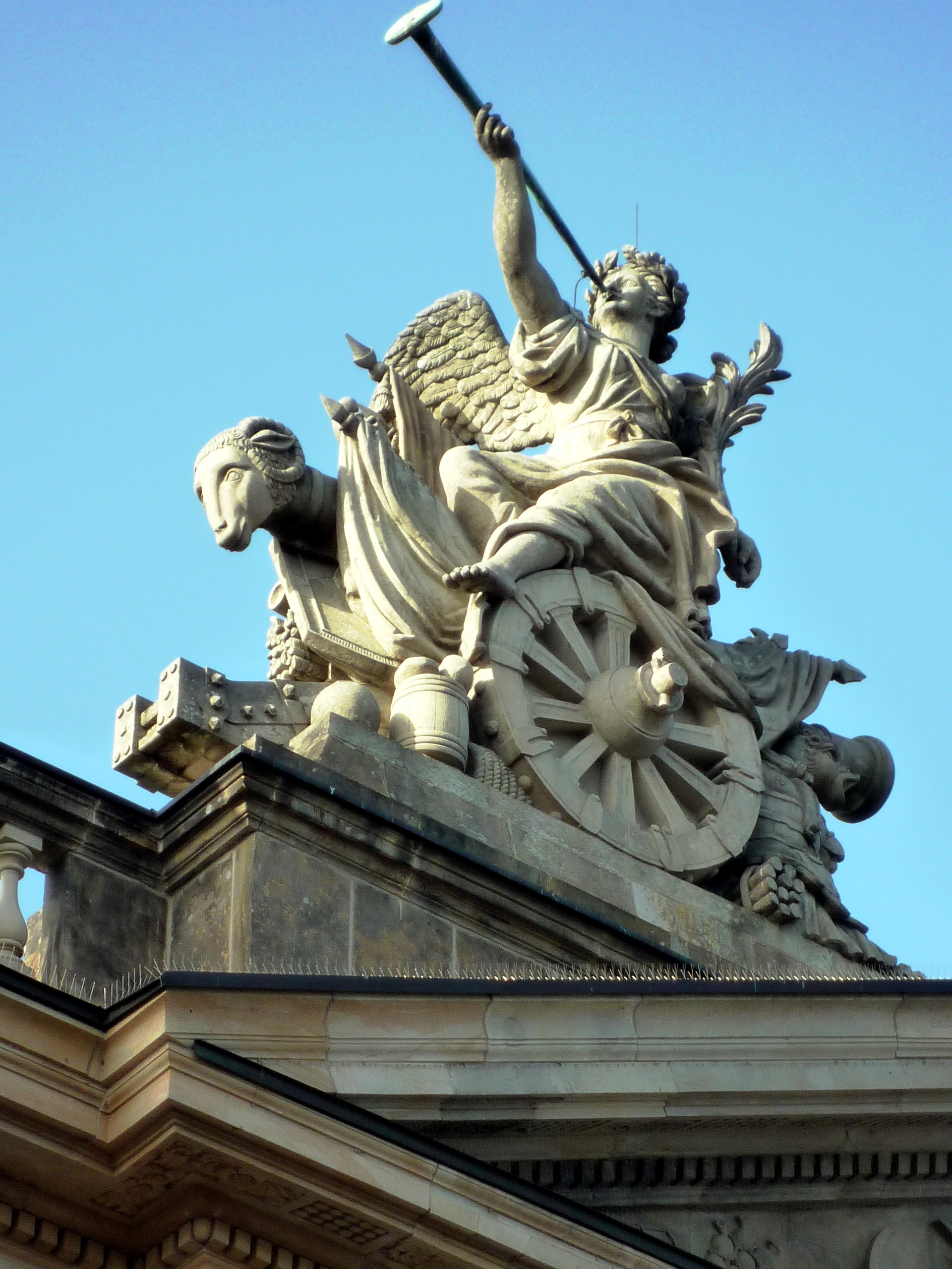 Zeughaus (arsenal) in Berlin-Mitte, actual "Deutsches Historisches Museum" (German Historic Museum). Sculpture on the roof of the building.